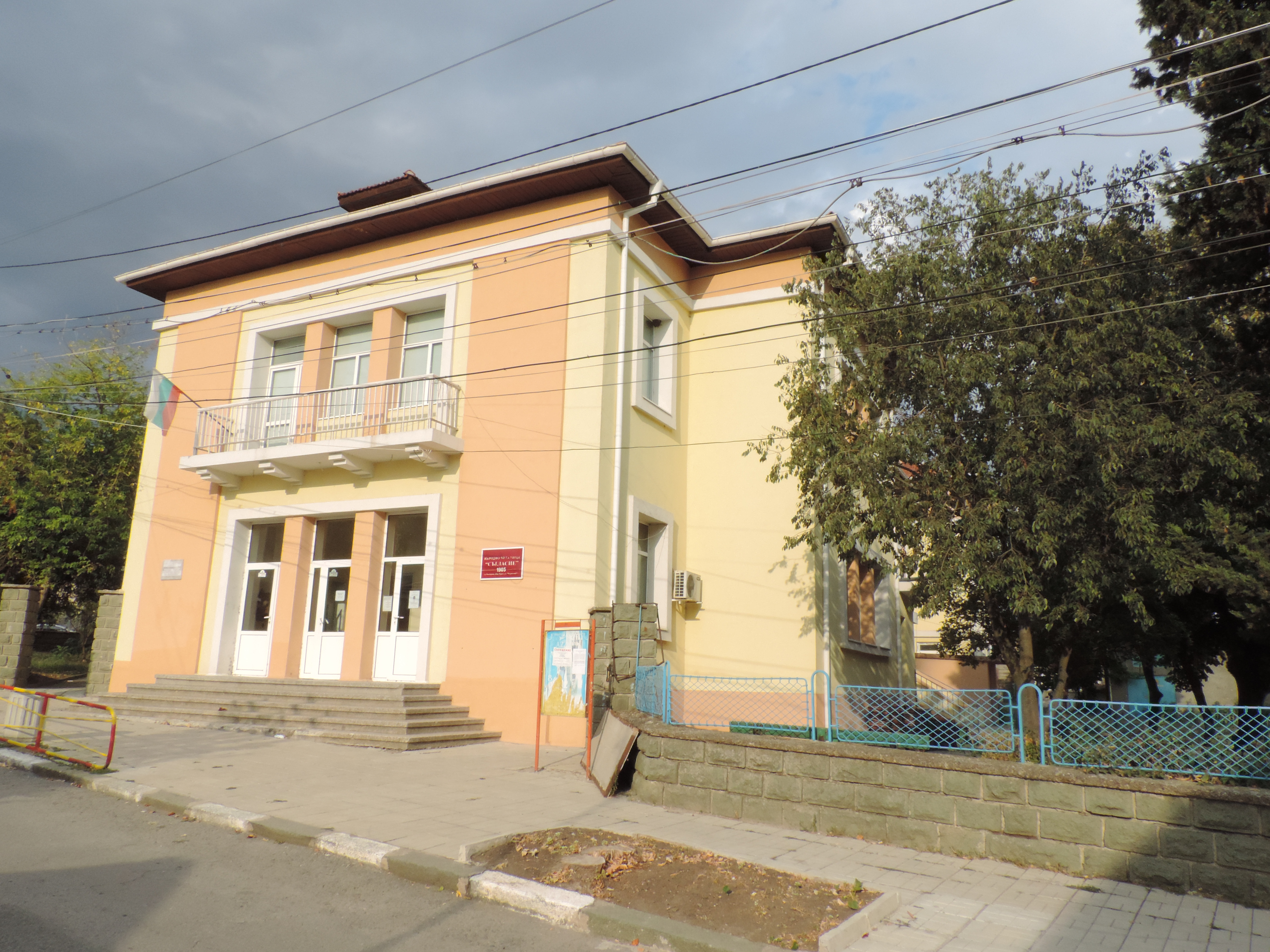 Chitalishte (culture/community centre) "Saglasie" in village Balgarovo, Burgas Province, Bulgaria